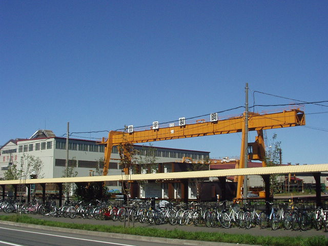 Toyohira Steel Co. Hassamu, Nishi (West) ward, Sapporo, Hokkaidō prefecture, Japan. From Tekkō-Danchi Avenue.